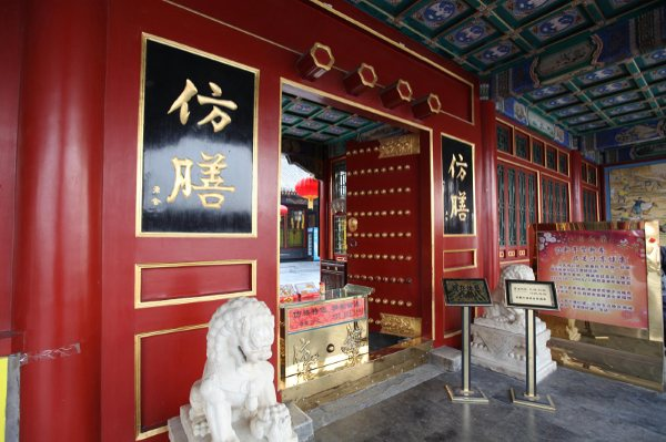 Imperial Kitchen imitation